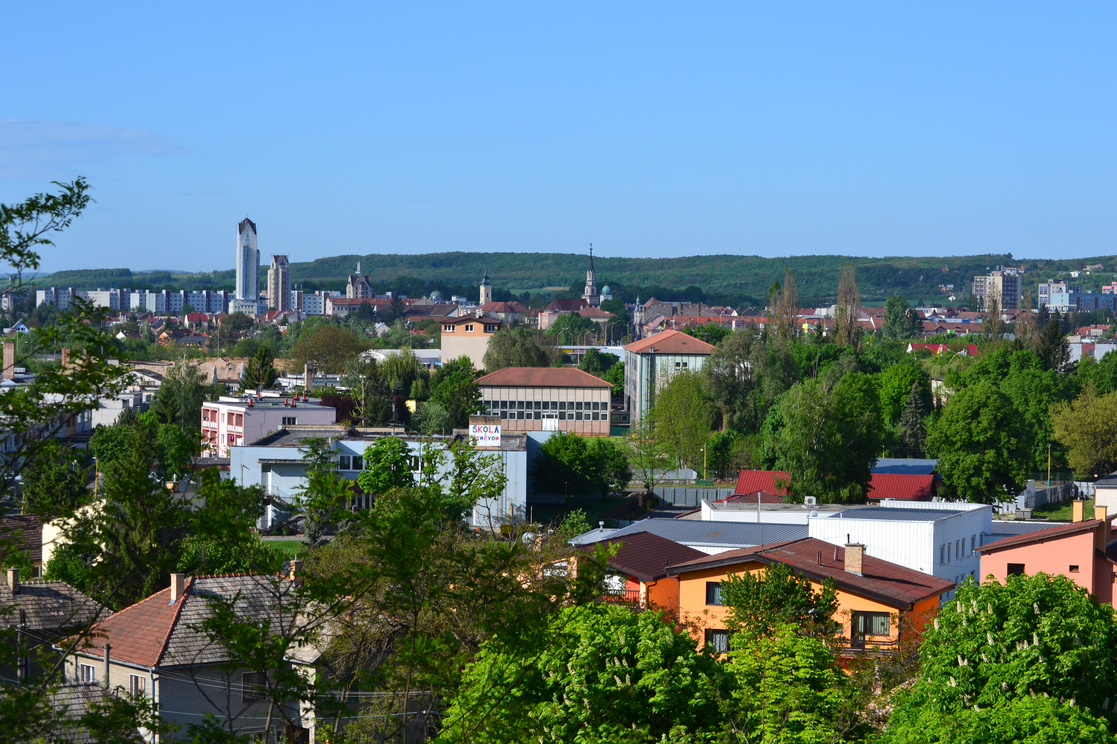 View of the town LučenecSlovenčina: Pohľad na mesto Lučenec